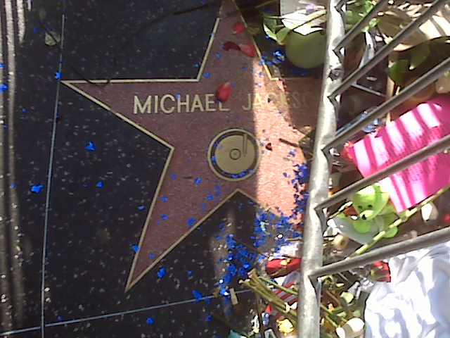 Michael Jackson's star on the Walk of Fame on Hollywood Boulevard with flowers.